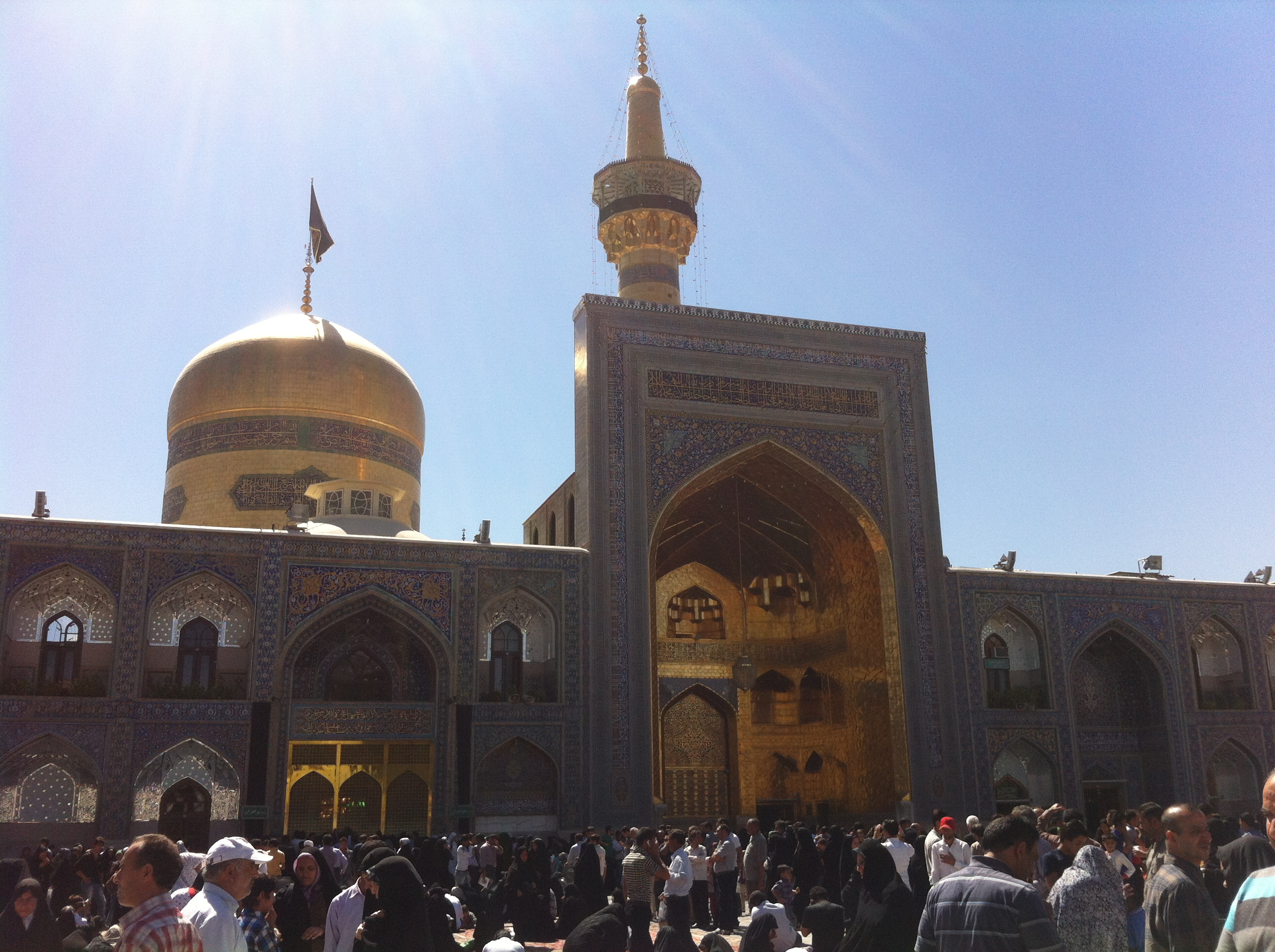 This image was taken by me, it is the famous entrance of the Imam Reza (a.s.) located under the main part of the shrine with the gilded dome.